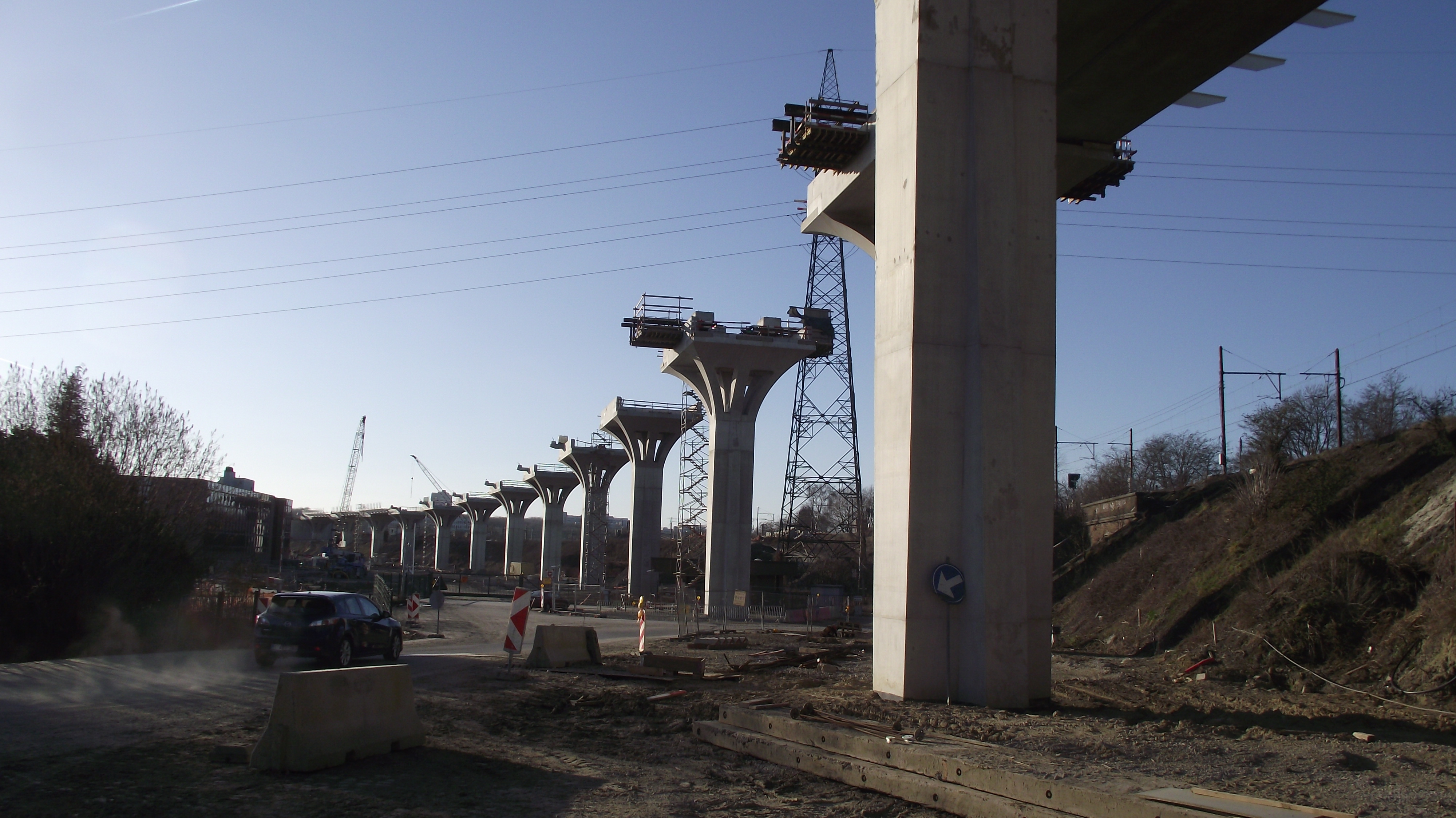 Construction of viaduct supports for railwayline 25N (diabolo project) in Haren over A railway yard.